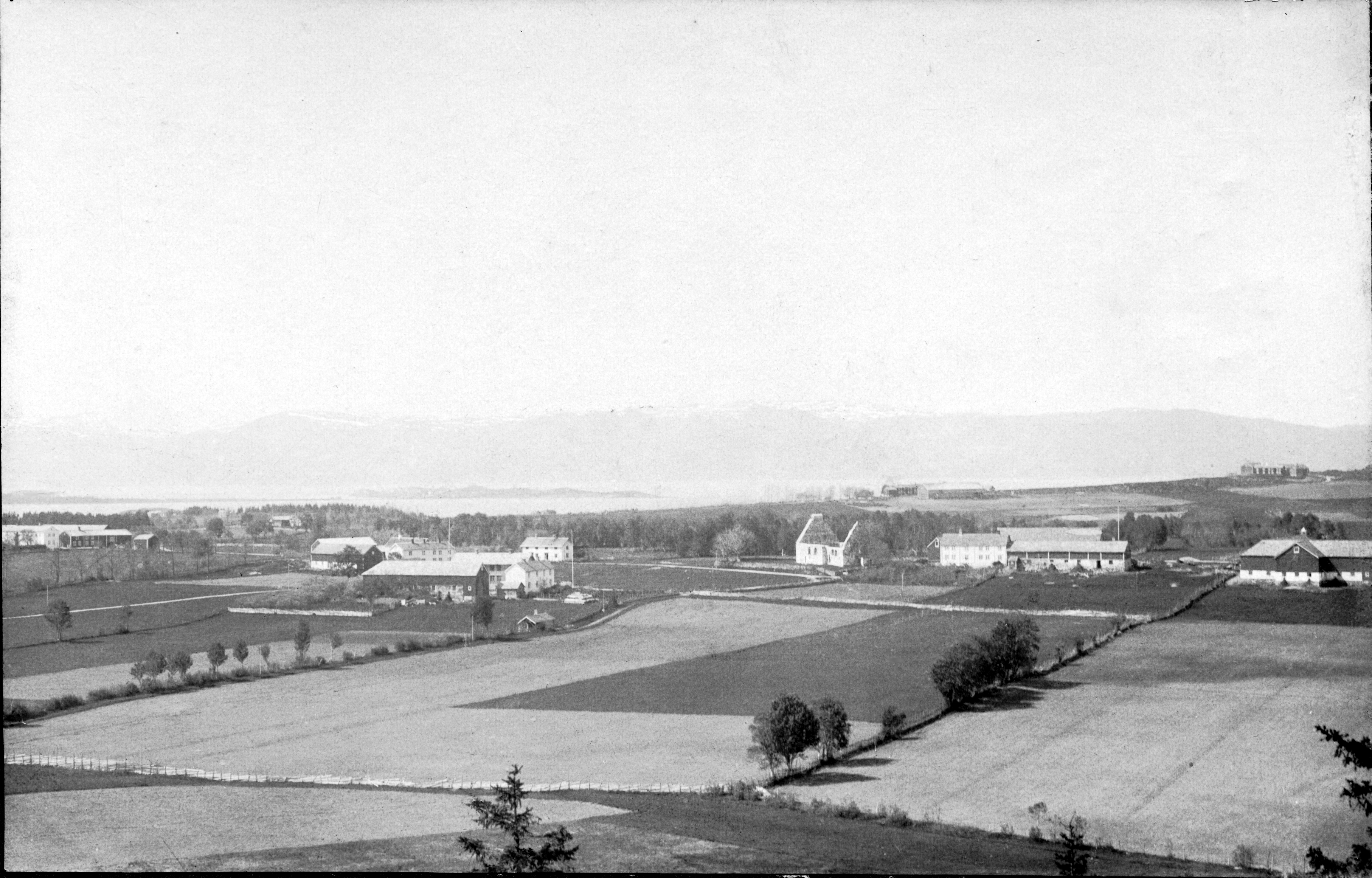 Frosta ca. 1900, seen from Logsteinhaugen